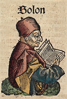 Solon. Woodcut from the Nuremberg Chronicle